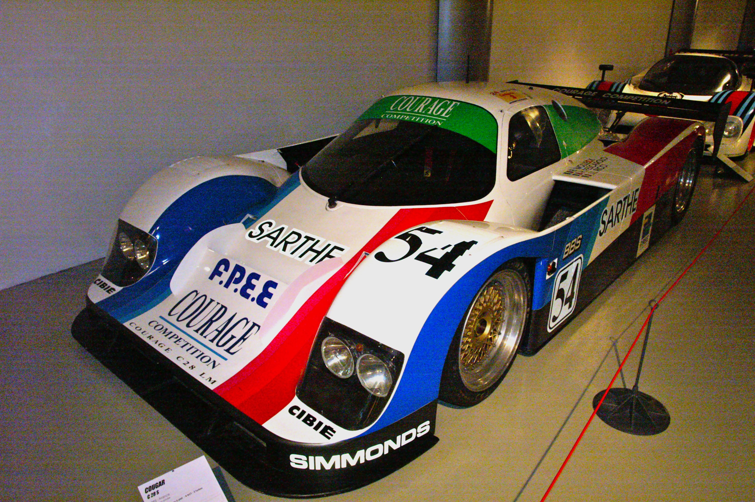 1994 Cougar Porsche C28 S shown at "Le Musee des 24 Heures". Class winner 1994